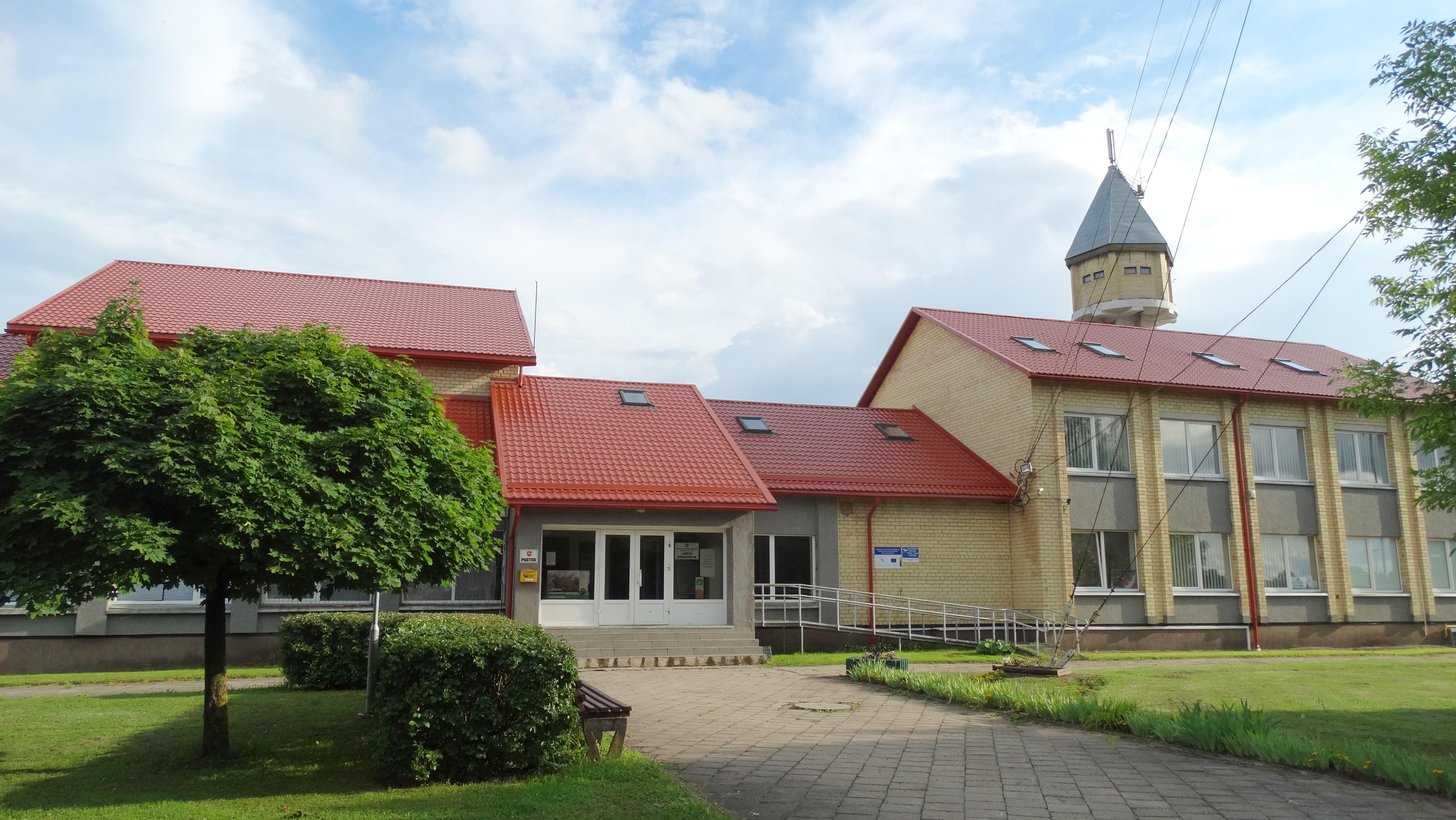 Eldership, Lapės, Kaunas district, Lithuania